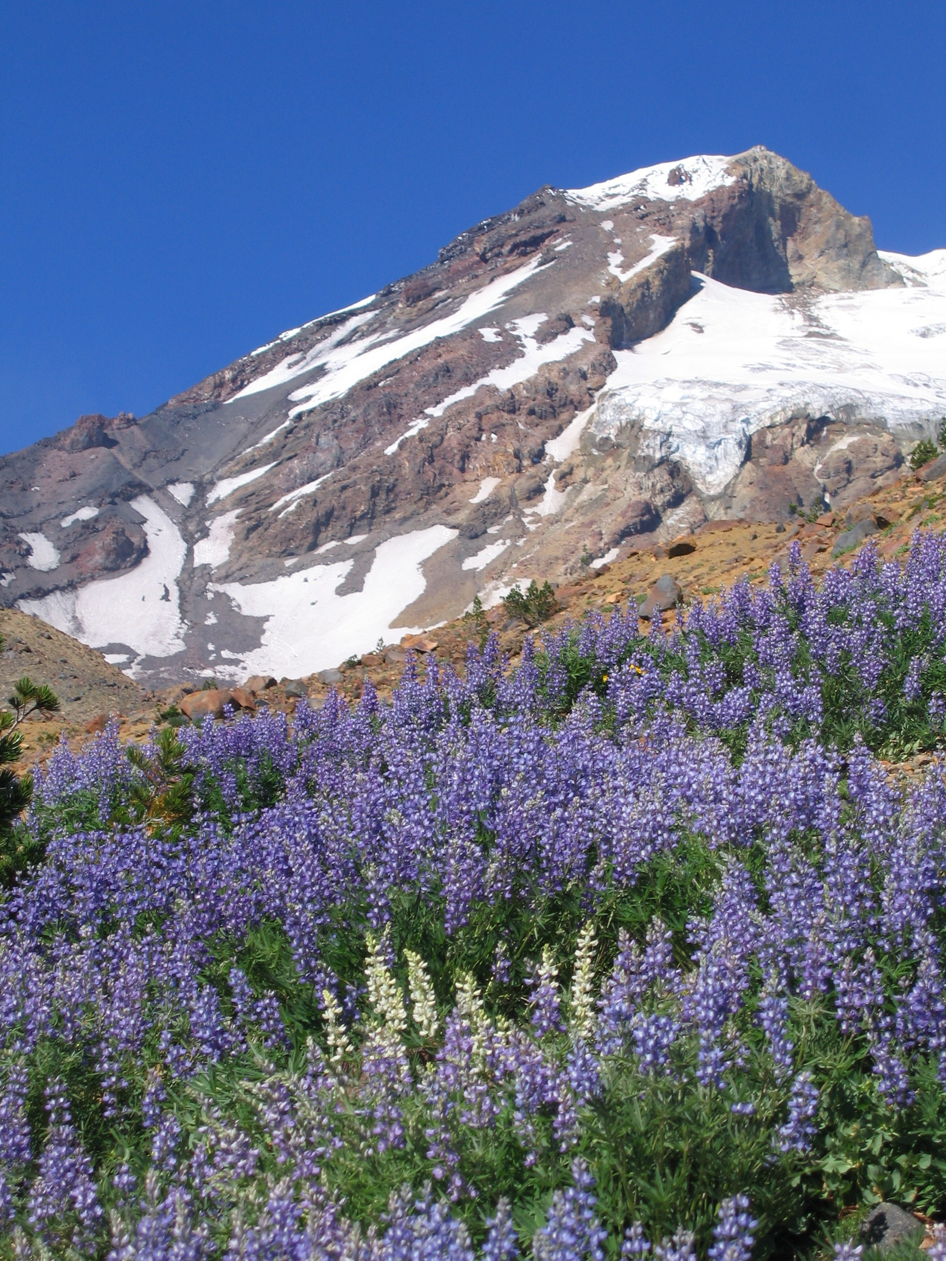 Lupine at tree line on Mount Adams (Washington).